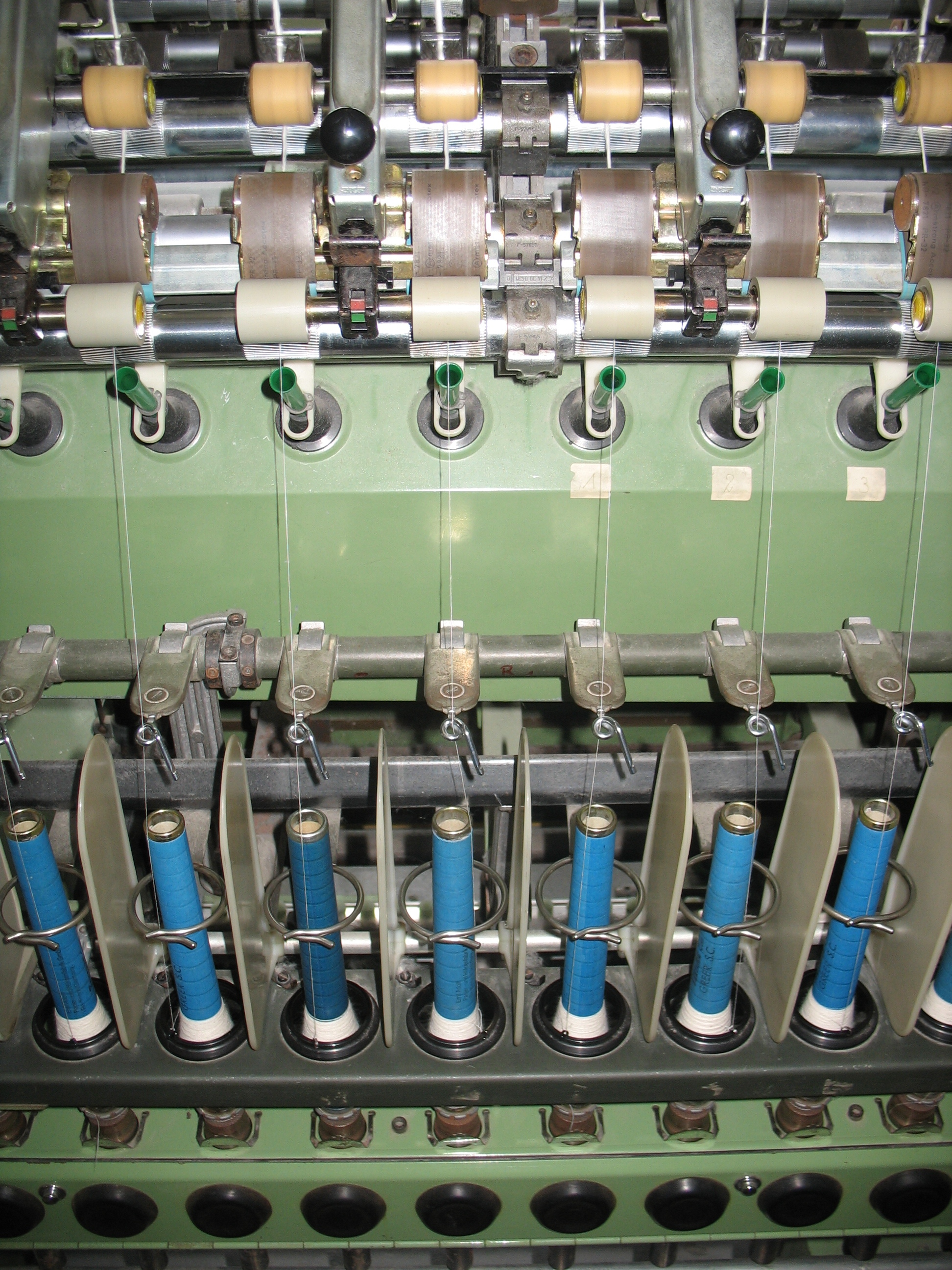 Ring spinning machine (year of constr. 1988) in the City Museum of Nordhorn, Germany